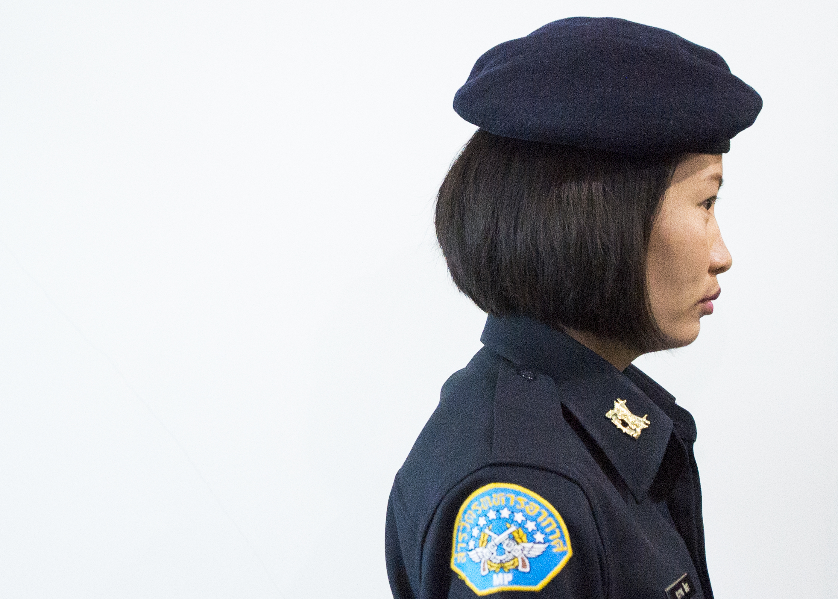 A Thai Soldier stands watch as Marine Corps Gen. Joe Dunford, chairman of the Joint Chiefs of Staff, meets with Thai Army Gen. Ponpipaat Benyasri, chairman of the Royal Thai Armed Forces Joint Staff, before departing Bangkok. (180208-D-PB383-053)